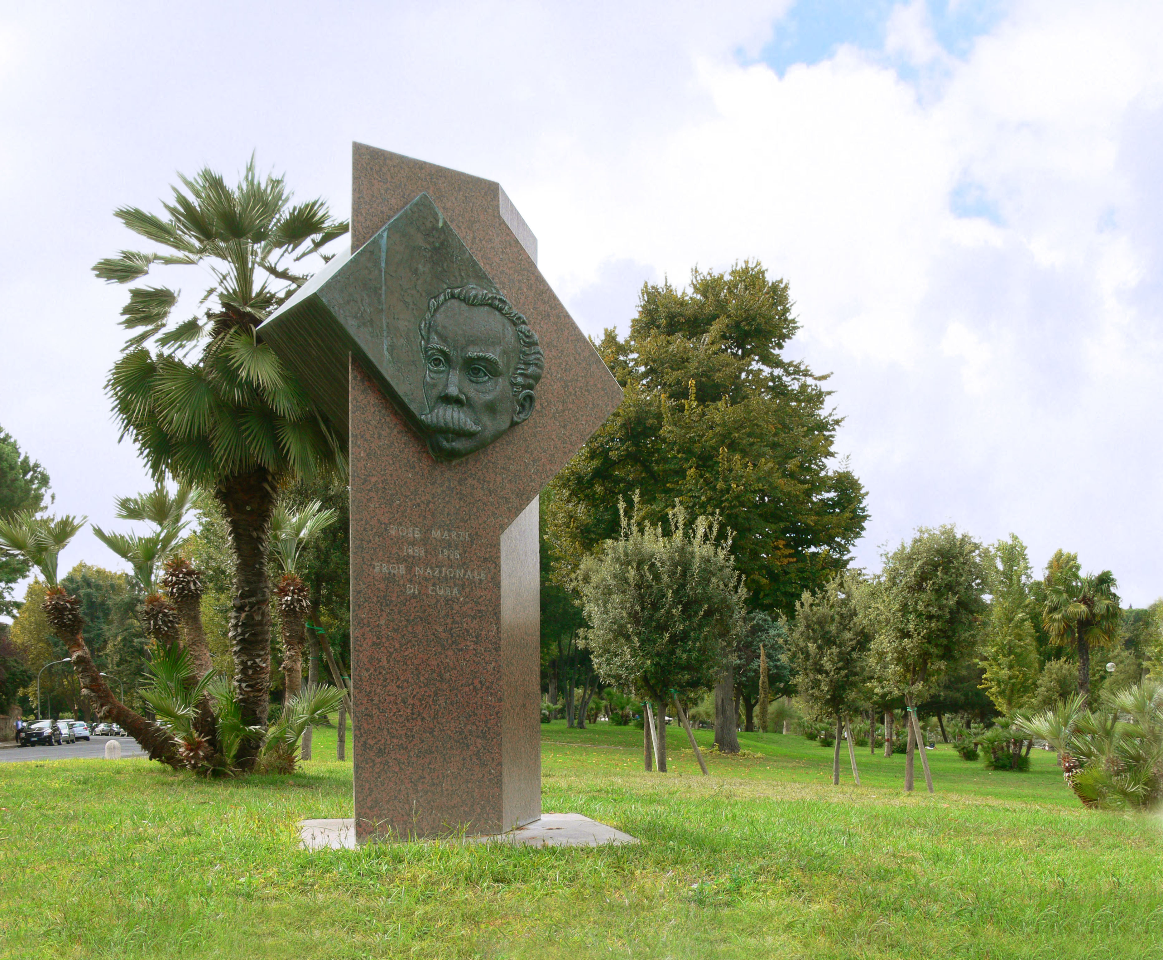 José Martí Monument at EUR, Rome. Architect: Reinaldo Togores. Sculptor: Tomás Lara.